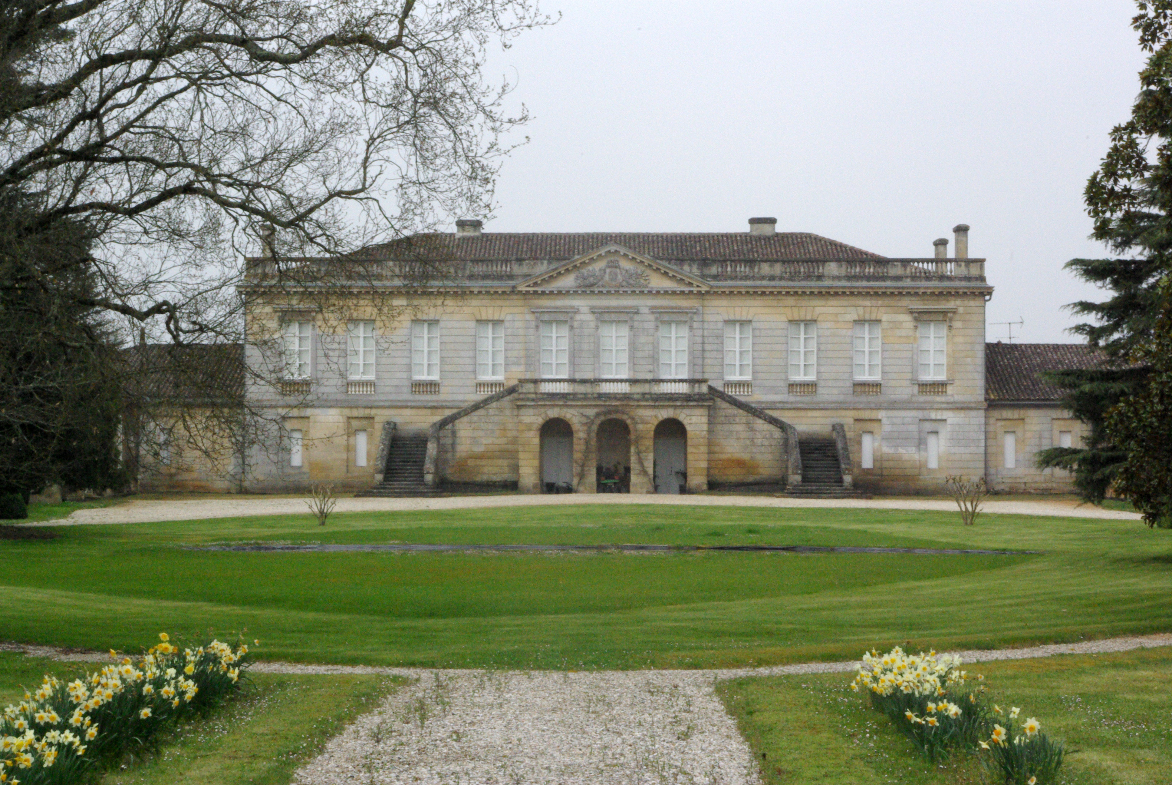 Château Plaisance in Macau (Gironde, France). National Heritage Site of France.